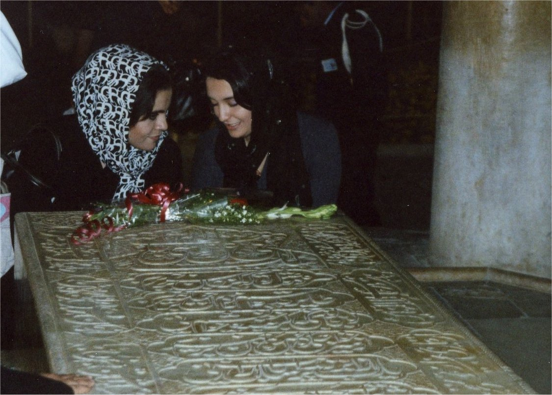 2 girls paying tribute to the great persian poet Hafez, reading out his verses on his tomb. Picture taken by myself in Shiraz, Iran, April 2006